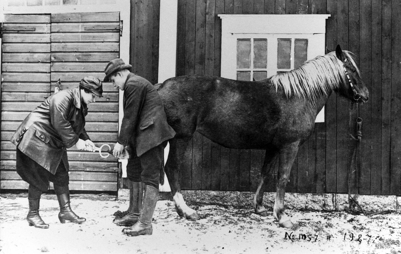 Finnish veterinarian Agnes Sjöberg, 1888–1964, the first woman in Europe to achieve doctorate in veterinary medicine.